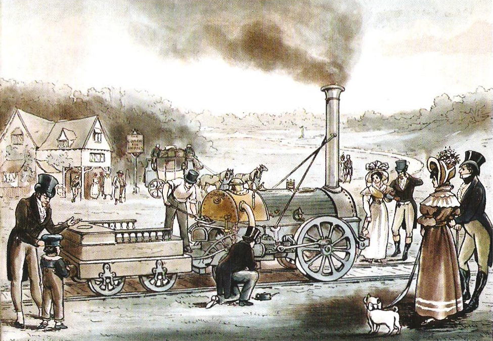 This is an image of a coloured lithograph, entitledLocomotive Engine, 'The Rocket', 1830published by The Leadenhall Press Ltd, 50 Leadenhall Street, London E.C. on 16 July 1894. The U.K. National Railway Museum has at least two copies, accession numbers 1975-8684 and 1978-2472, with images available through its in-house picture agency SSPL, ref 10300243. Getty Images also has a version, credited to the Imagno agency and the Austrian National Archives, identifier 462393_imagno. Corbis have a copy of the Austrian image, AU002279, and a black and white version IH161934. Copies of the lithograph also come up in print shops and on Ebay [1]. However, despite the title, the locomotive depicted is not in fact Rocket, which was yellow at this time, and of a different external design. The locomotive is actually Stephenson's 1830 locomotive Northumbrian, the engine closely resembling for example the contemporary engraving by Isaac Shaw published as plate 4 of his A new and complete work of the Liverpool and Manchester Railway (1831), although the tender is different. Dendy Marshall (1930) identifies the print as being "after the drawing by Nasmyth of the Northumbrian" "locomotive+engine+the+rocket+1830", (image, reproduced from Scientific American Supplement, October 1884). Nasmyth had sketched the locomotive four days before the opening of the line in September 1830, but misidentified it as the Rocket [2]. Marshall comments that he had never seen a copy of the print in an early state.A different version of the image is also held by Corbis, IH187731, and Bridgeman, CHT 105858, which appears to be a coloured line engraving, sourced to the Bibliotheque des Arts Decoratifs, Paris. The relation of this to the Leadenhall Press Ltd lithograph is not clear.